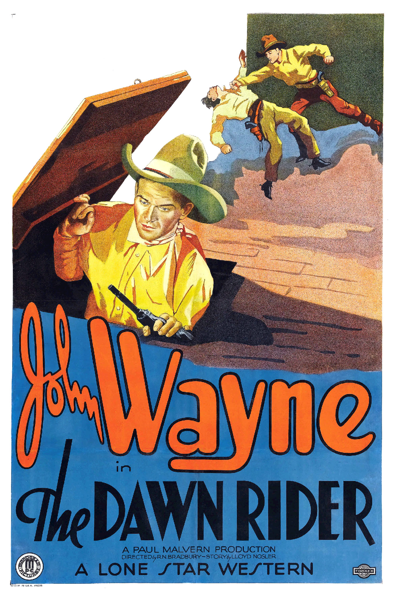 Poster for the 1935 film The Dawn Rider. There are no copyright marks. At bottom left is Made in USA #6236. At bottom right is the Tooker Litho Company logo-they printed the poster.